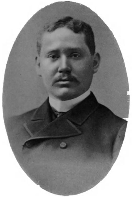 A photo of Henry Raup Wagner in a book dedicated to the Yale University class of 1884.